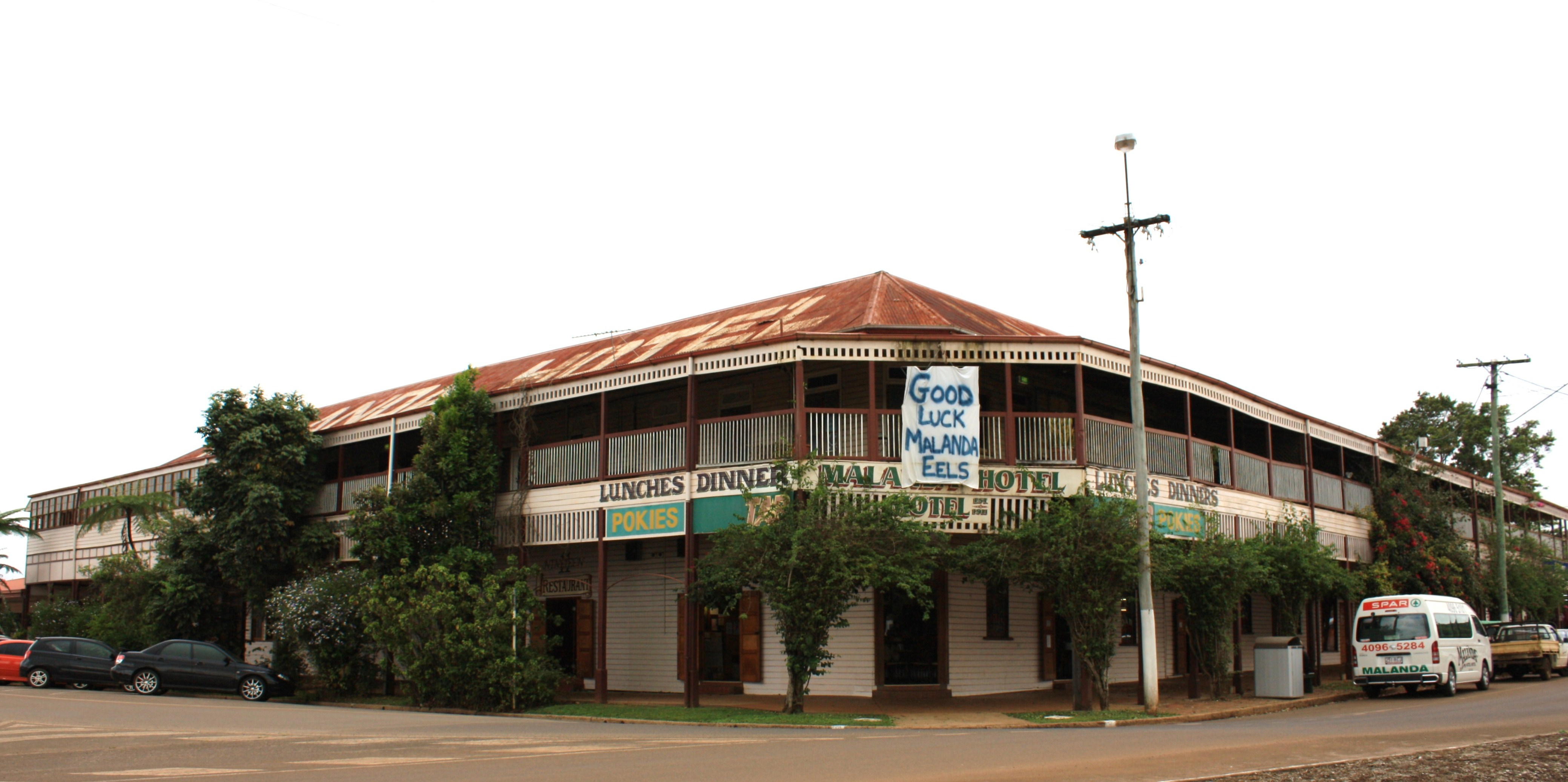 Malanda Hotel English Street, Malanda QLD. The Malanda Hotel, built in 1911 from local timber, is said to be the largest wooden structure in Australia. This fine example of local pioneer architecture has a grand ballroom and silky oak staircase.